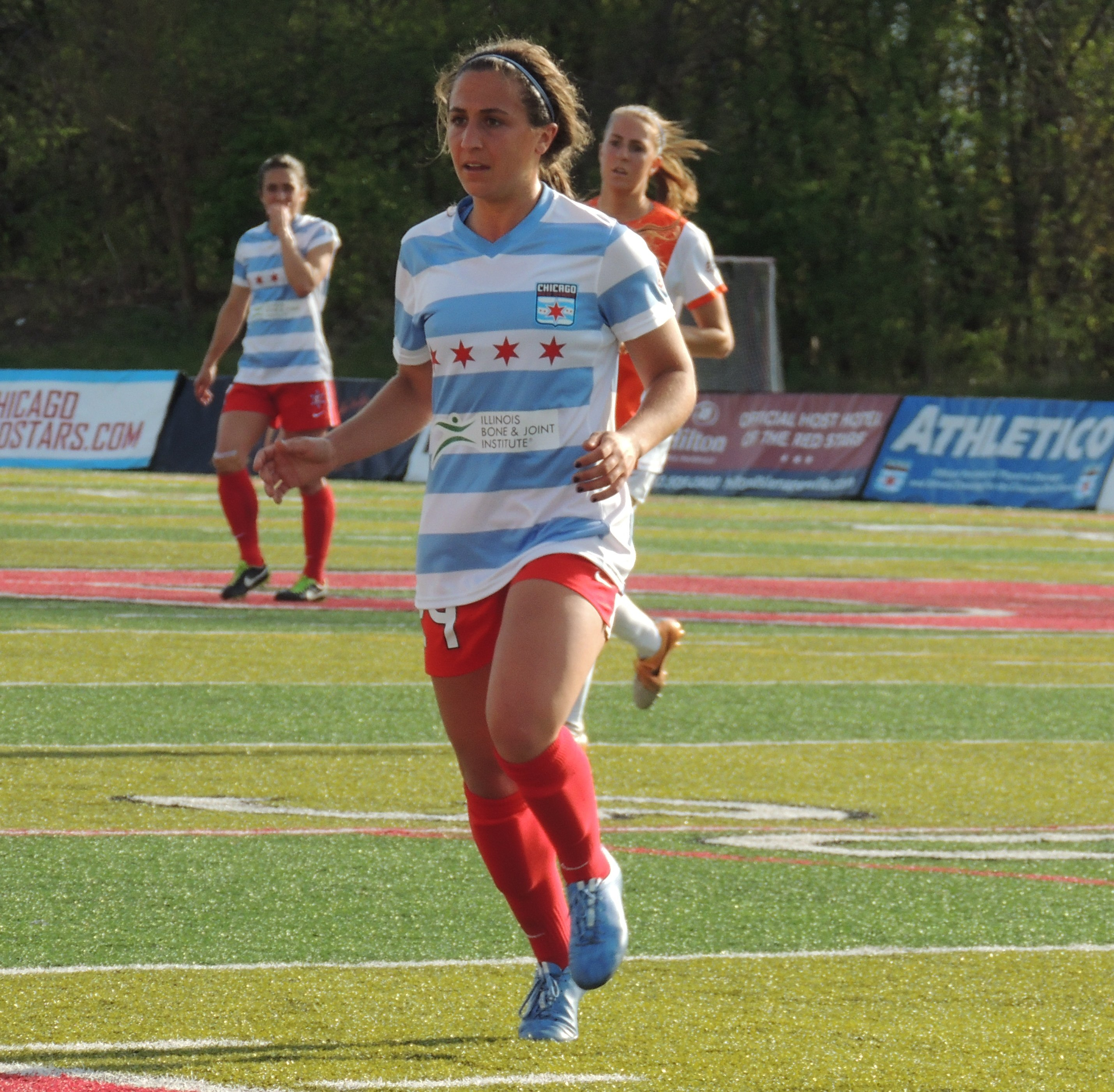 2015-05-02 Danielle Colaprico in Sky Blue at Red Stars